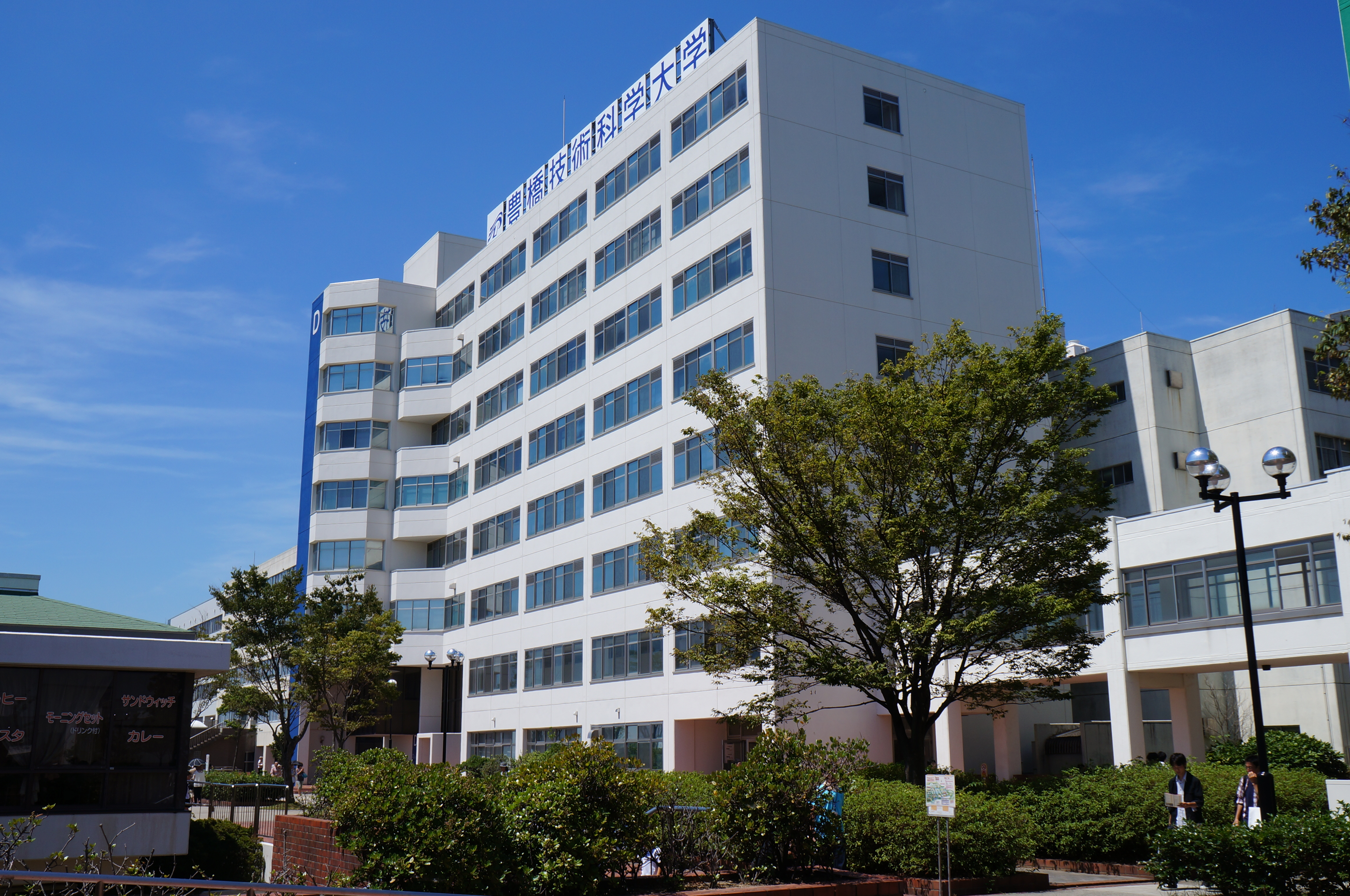 D Building of Toyohashi University of Technology.